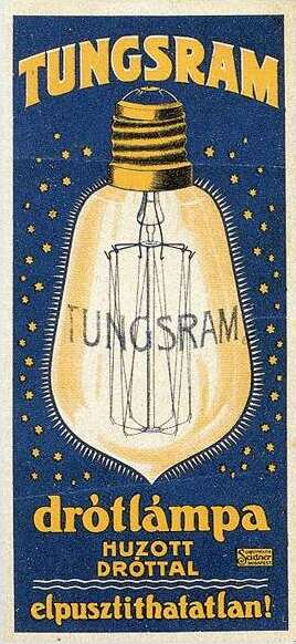 Tungsram tungsten light bulb advertisement in 1906. The inscription reads: "Wire lamp with a drawn wire – indestructible!